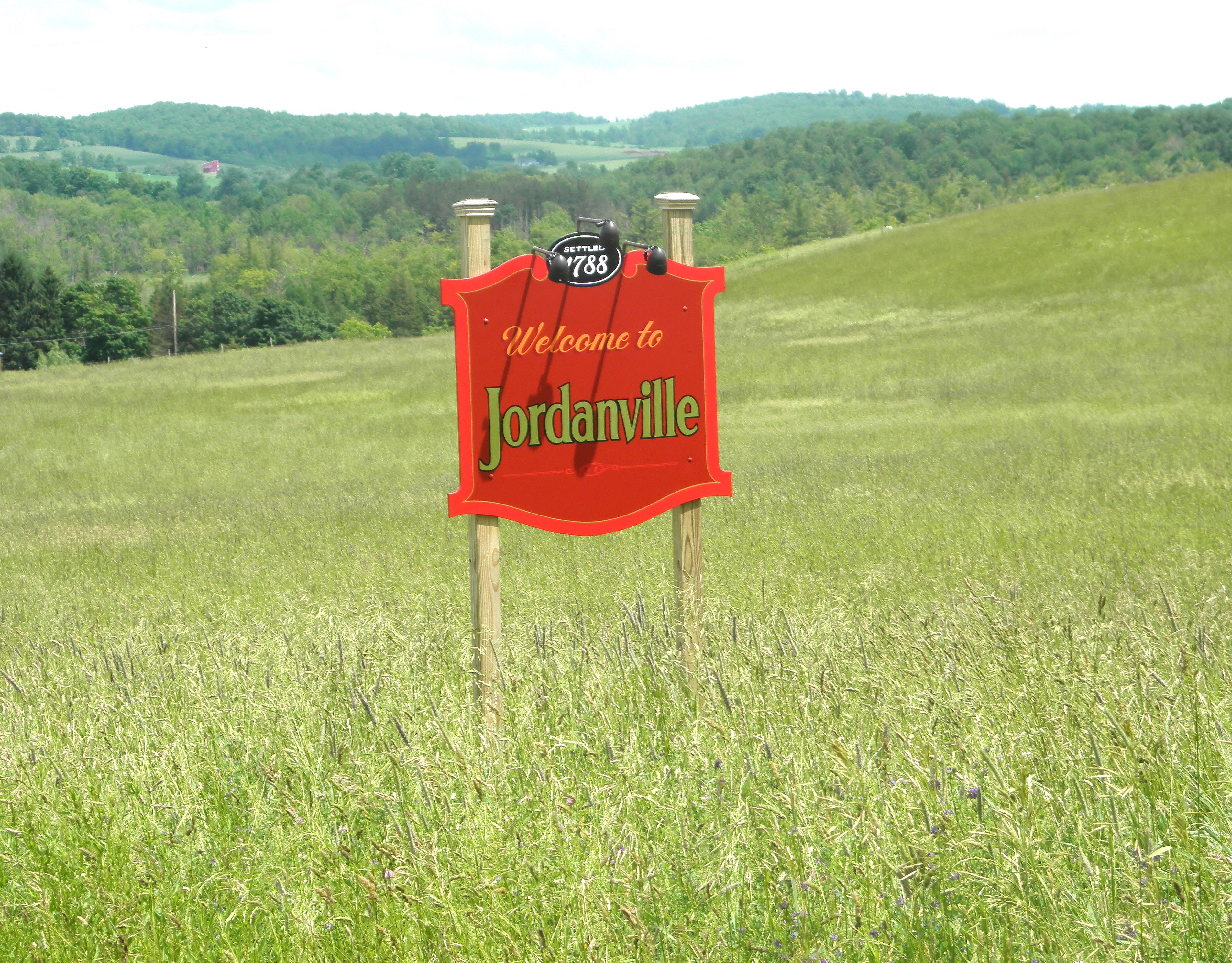 Settlement sign for the hamlet of Jordanville, in the town of Warren, Herkimer County, New York. The sign reads: "Settled 1788, Welcome to Jordanville"